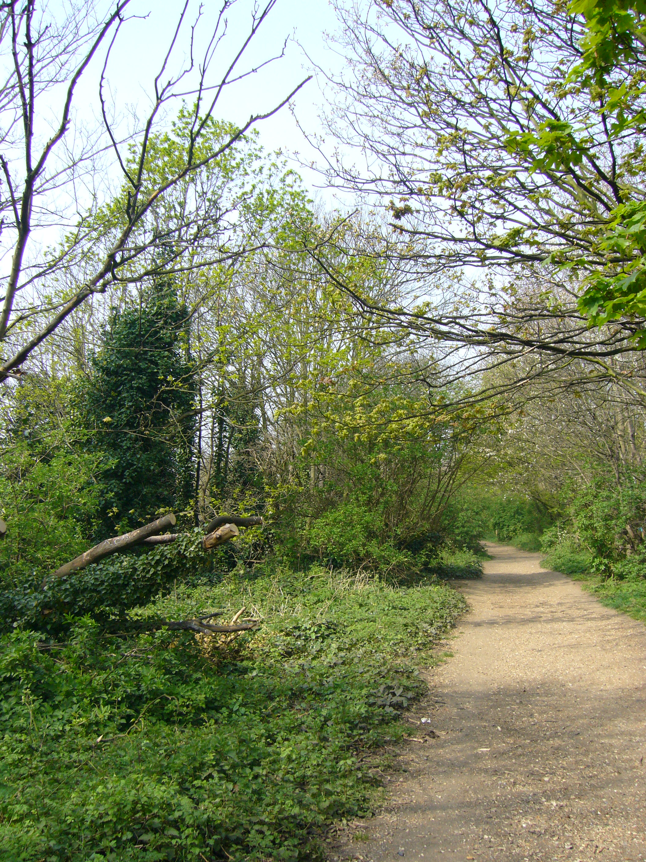 Parkland Walk taken by Fezpp on 14/04/2007.